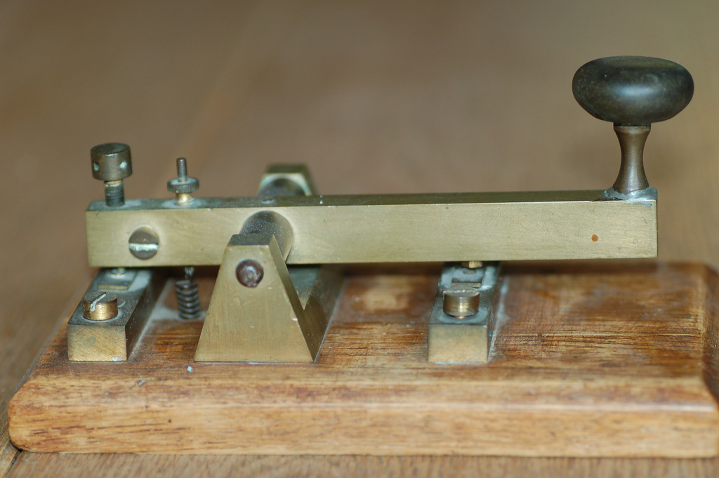 telegraph key